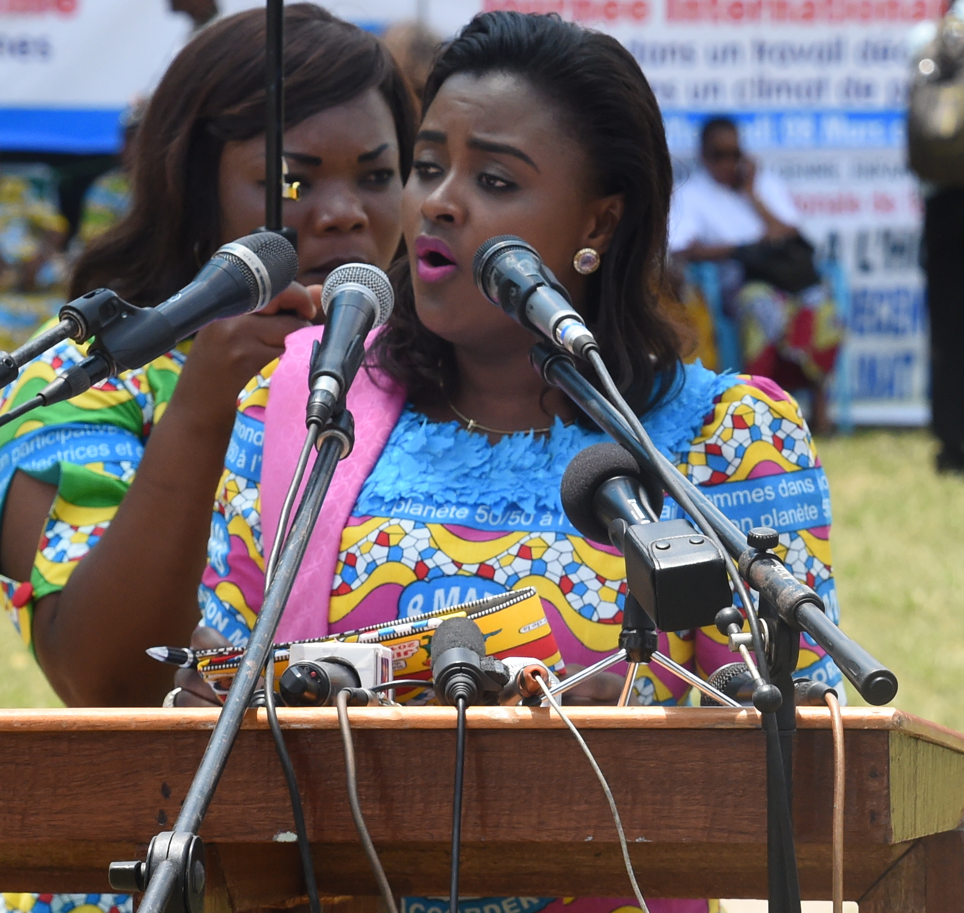 Kinshasa, DR Congo: President of the Pan African Union Youth, Francine Muyumba, during the celebration of International Women's Day at the Shark Club in Kinshasa